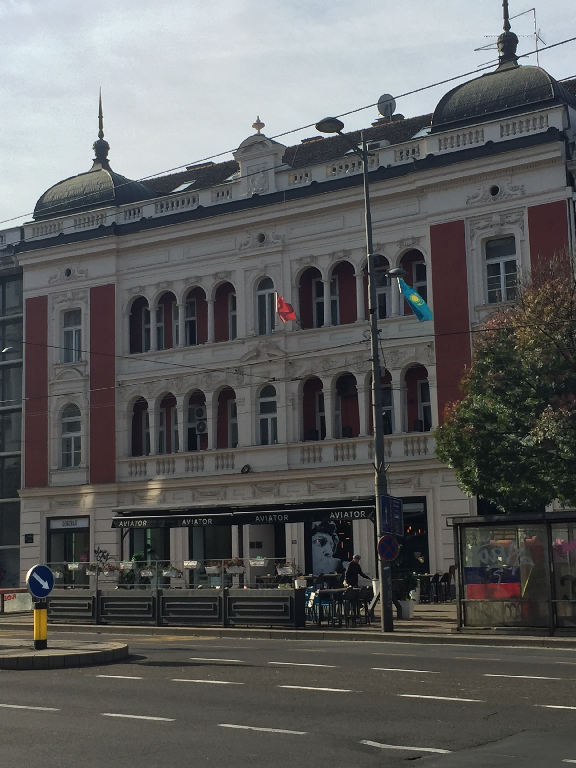 Honorary consulate of Belarus and consulate od Kazakhstan, Terazije 28, Belgrade, Serbia